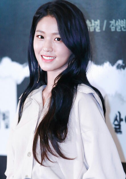 Kim Seol-hyun greetings the public on September 17, 2017.